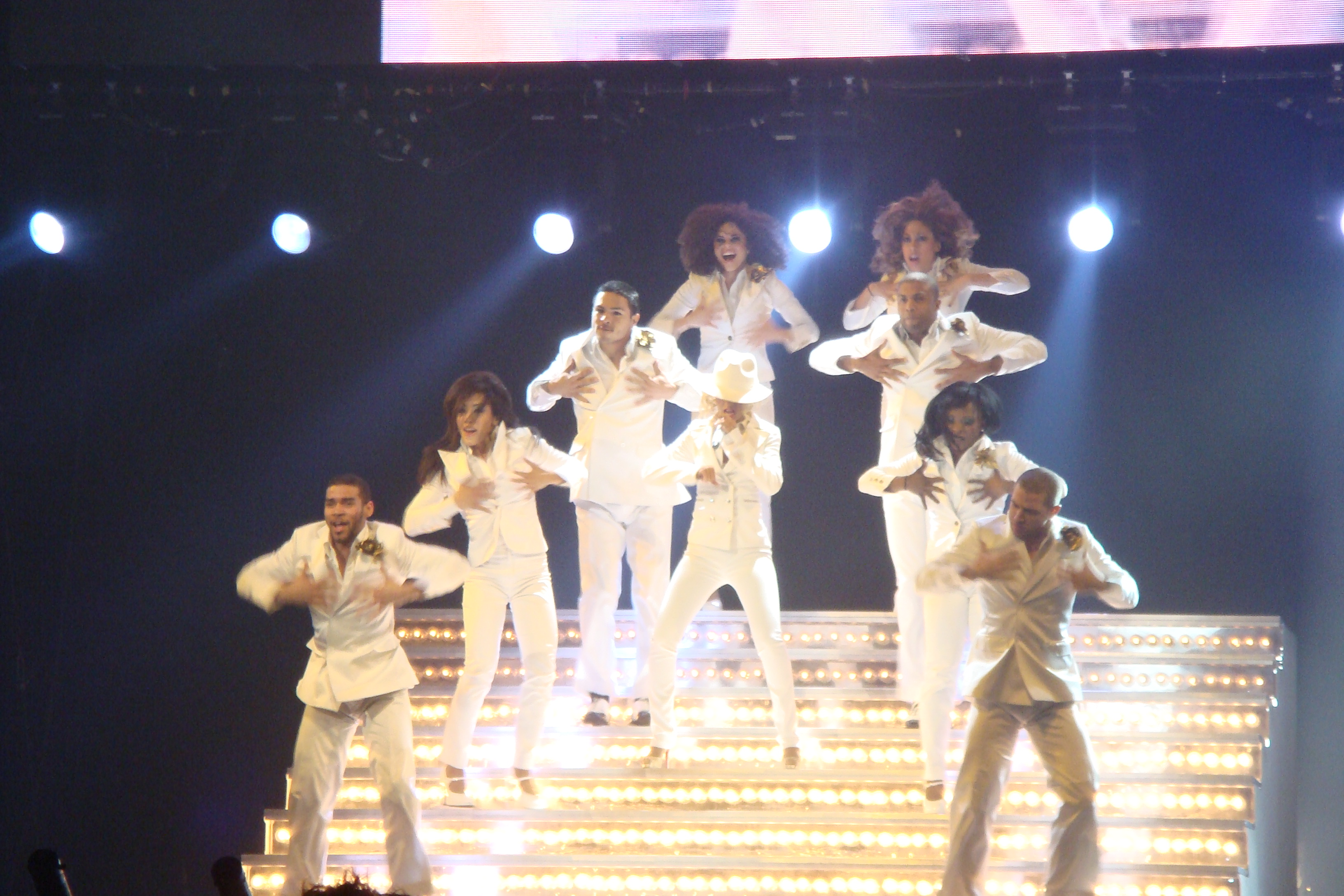 "Ain't No Other Man" by Christina Aguilera